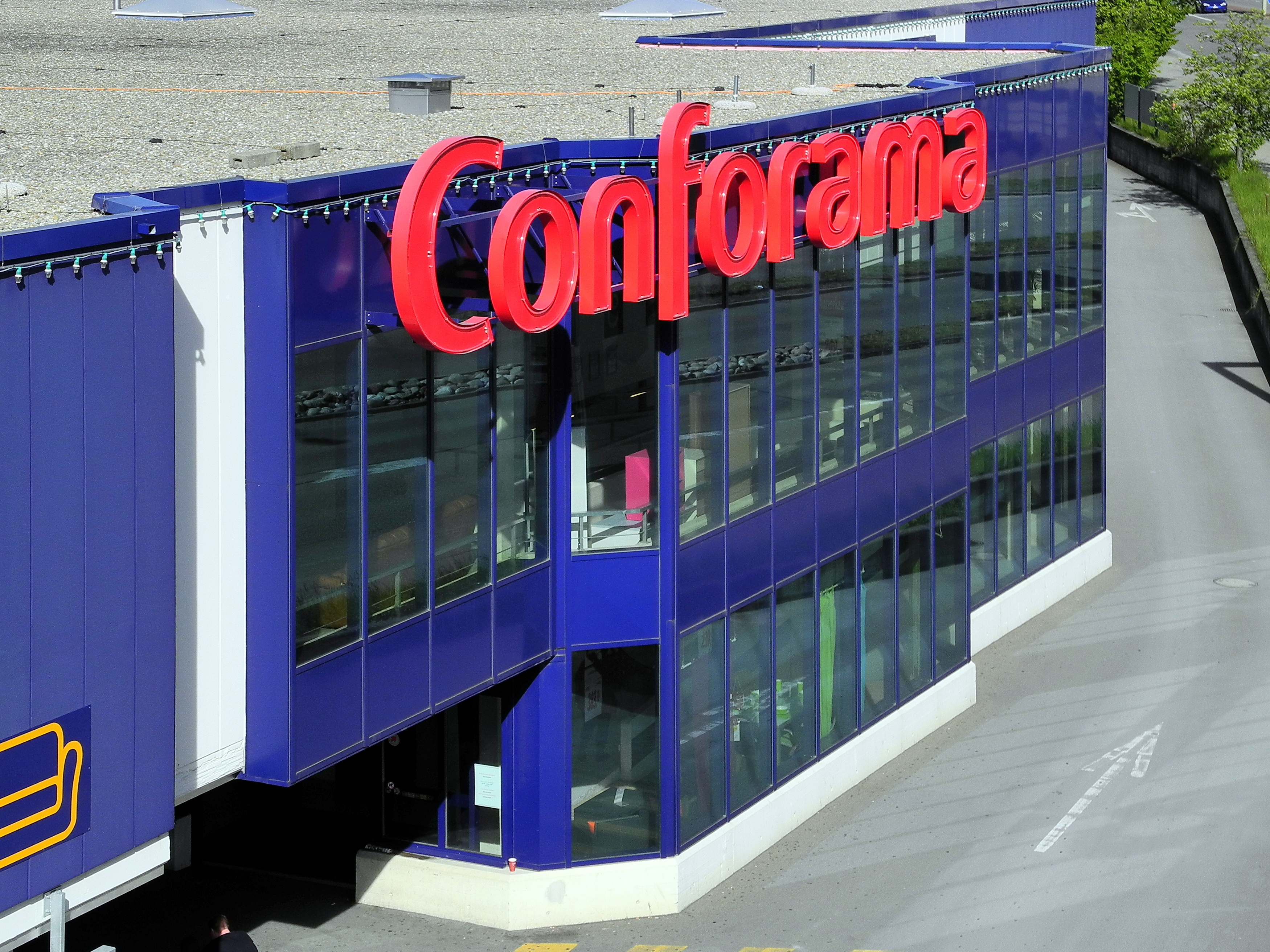 Conforama in Wallisellen (Switzerland) as seen from the Glattalbahn train station Glattzentrum